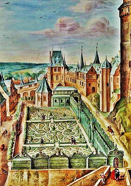 Gardens of John, Count of Nassau-Idstein, laid out in the shape of fruits